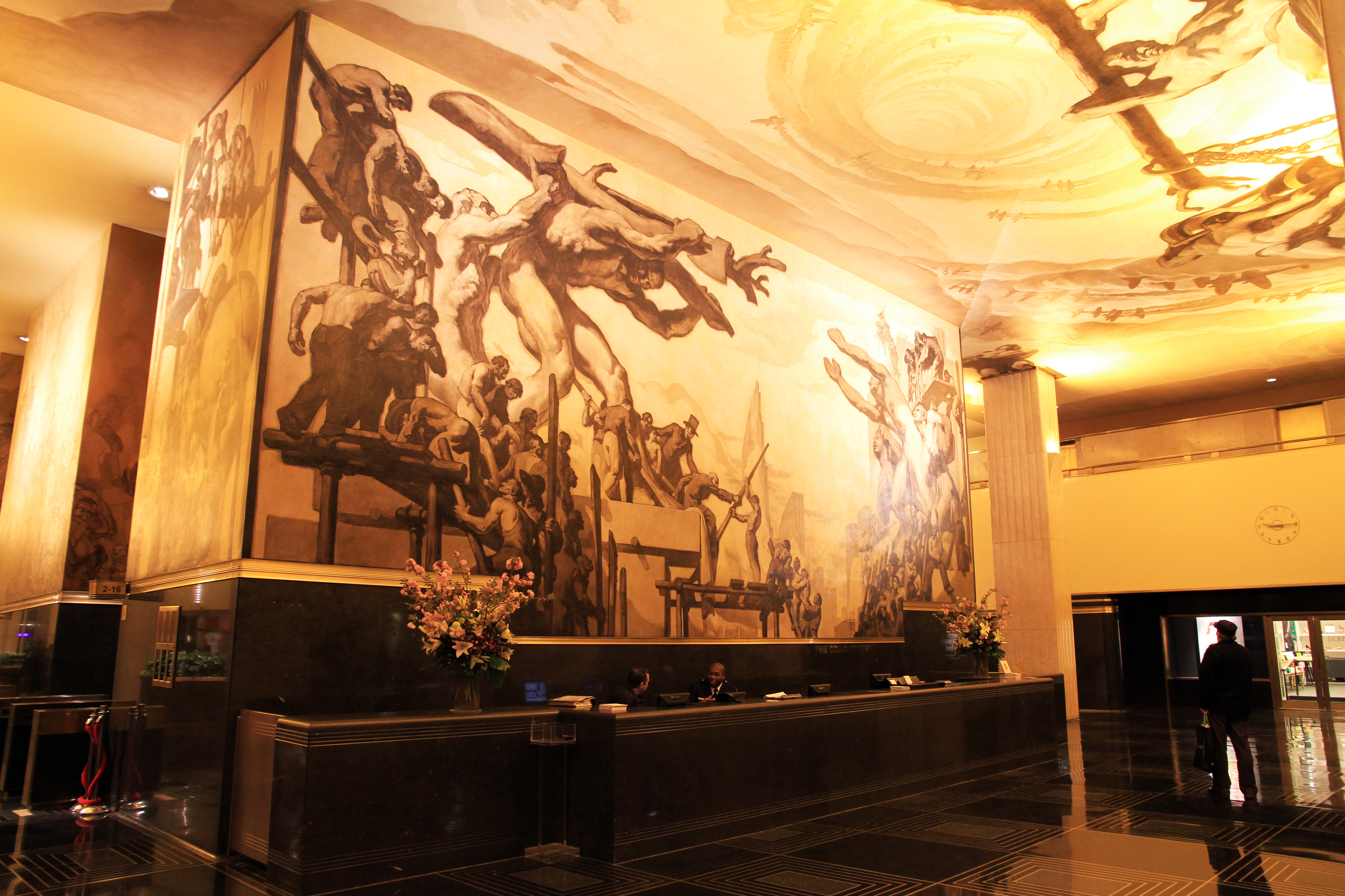 Rockefeller Center